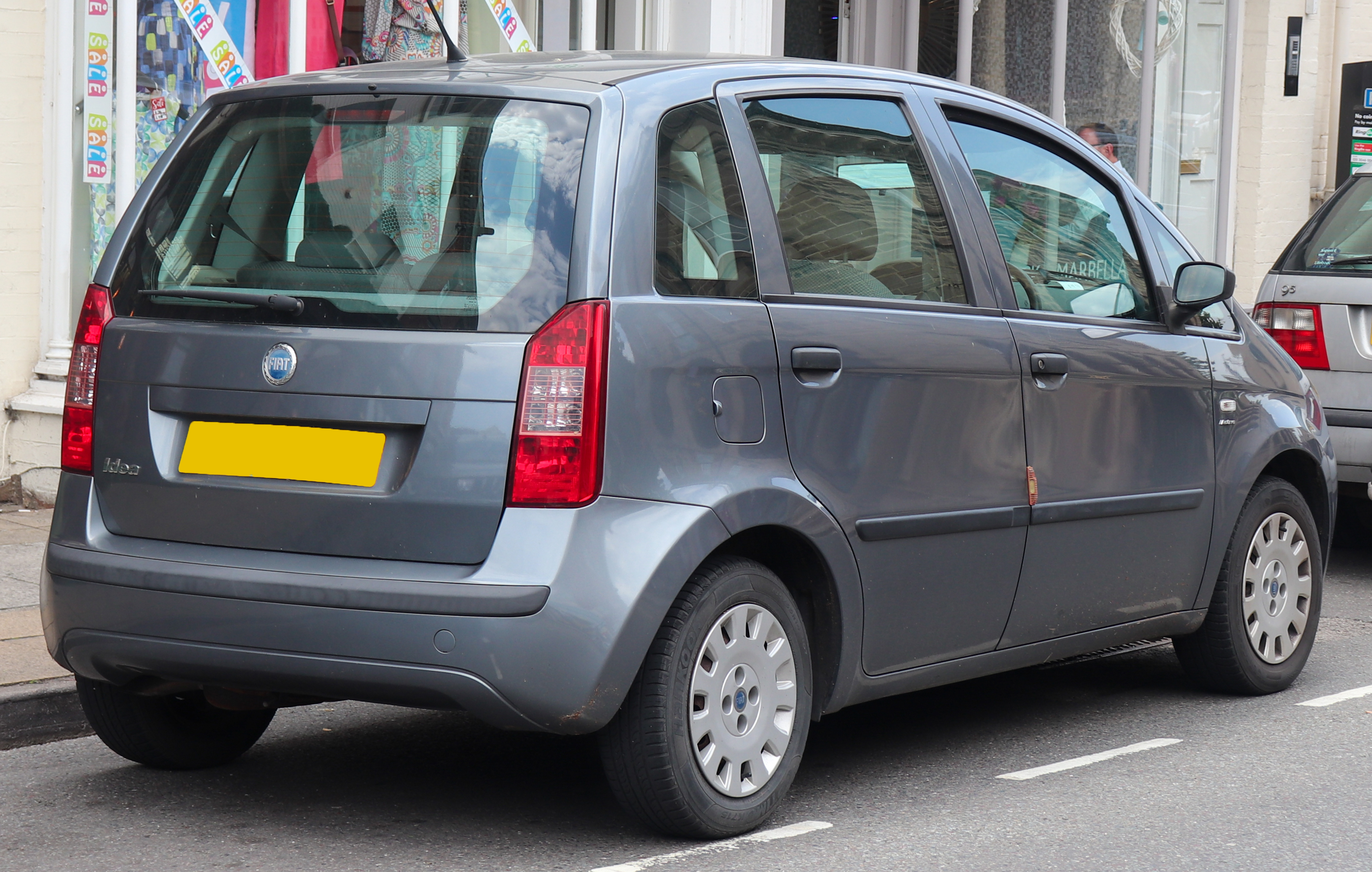 2005 Fiat Idea Active 1.4 Rear Taken in Warwick